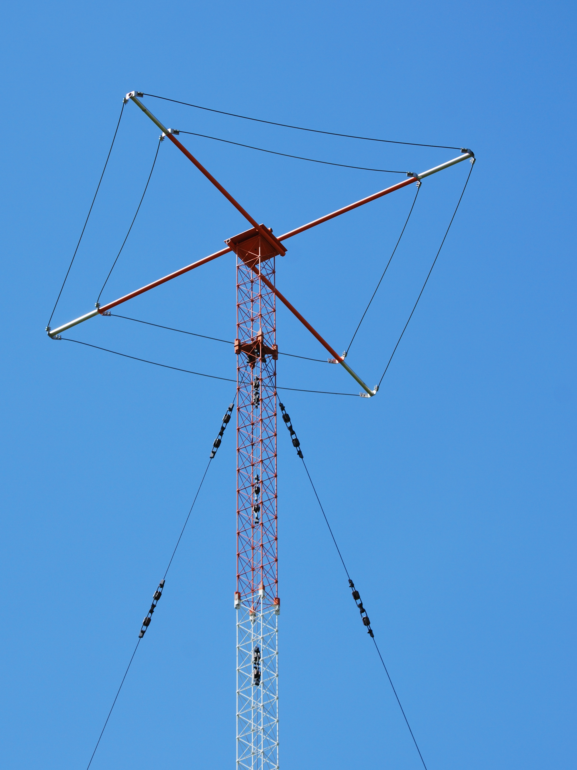 Top of the radio mast of the medium wave transmitter in Hirschlanden, Baden-Württemberg, Germany, of the Deutsche Telekom AG for the AFN, showing a capacity "top hat" for electrical lengthening. The screen of wires supported by the four radial arms acts as a capacitor plate, with the ground as the other plate. Each cycle of the alternating current radio signal, current flows in and out of the screen, just as if the tower continued above it. This serves to increase the current in the top part of the antenna, increasing the radiated power, as if the tower was longer.